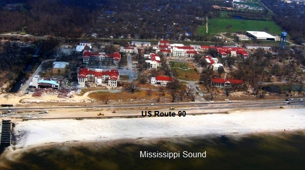 Aerial view of Gulfport Veterans Administration Medical Center Historic District, also known as "Centennial Plaza", located in Gulfport, Mississippi, USA. Photographed two weeks after Hurricane Katrina devastated the Mississippi Gulf Coast.